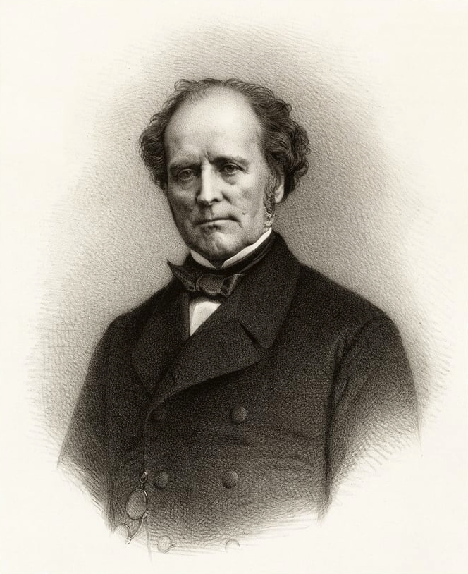 François-Auguste Mignet (1796-1884), journaliste, historian, « immortel » member of the Académie française